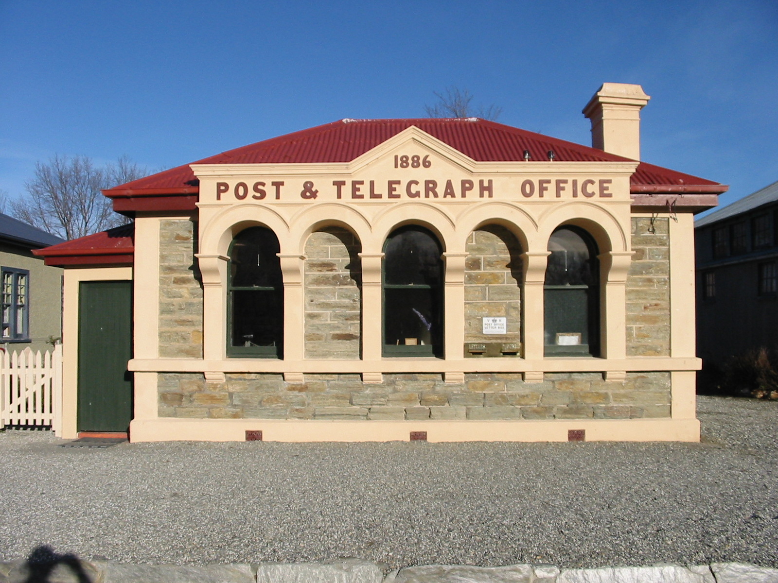 Ophir (Otago, New Zealand) Post and Telegraph Office. NZHPT Category I; registration number 341.